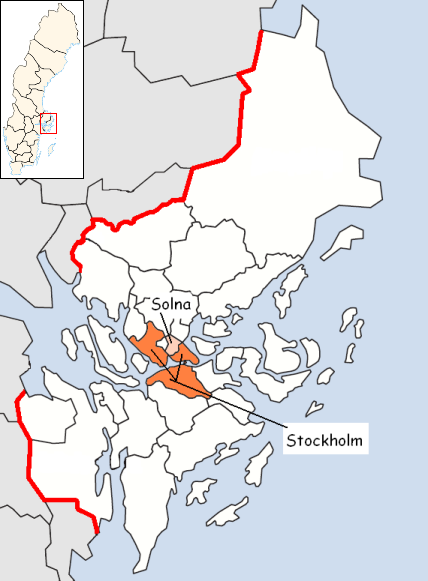 Solna Municipality in Stockholm County Designed by me. Mere outlines are a PD source from